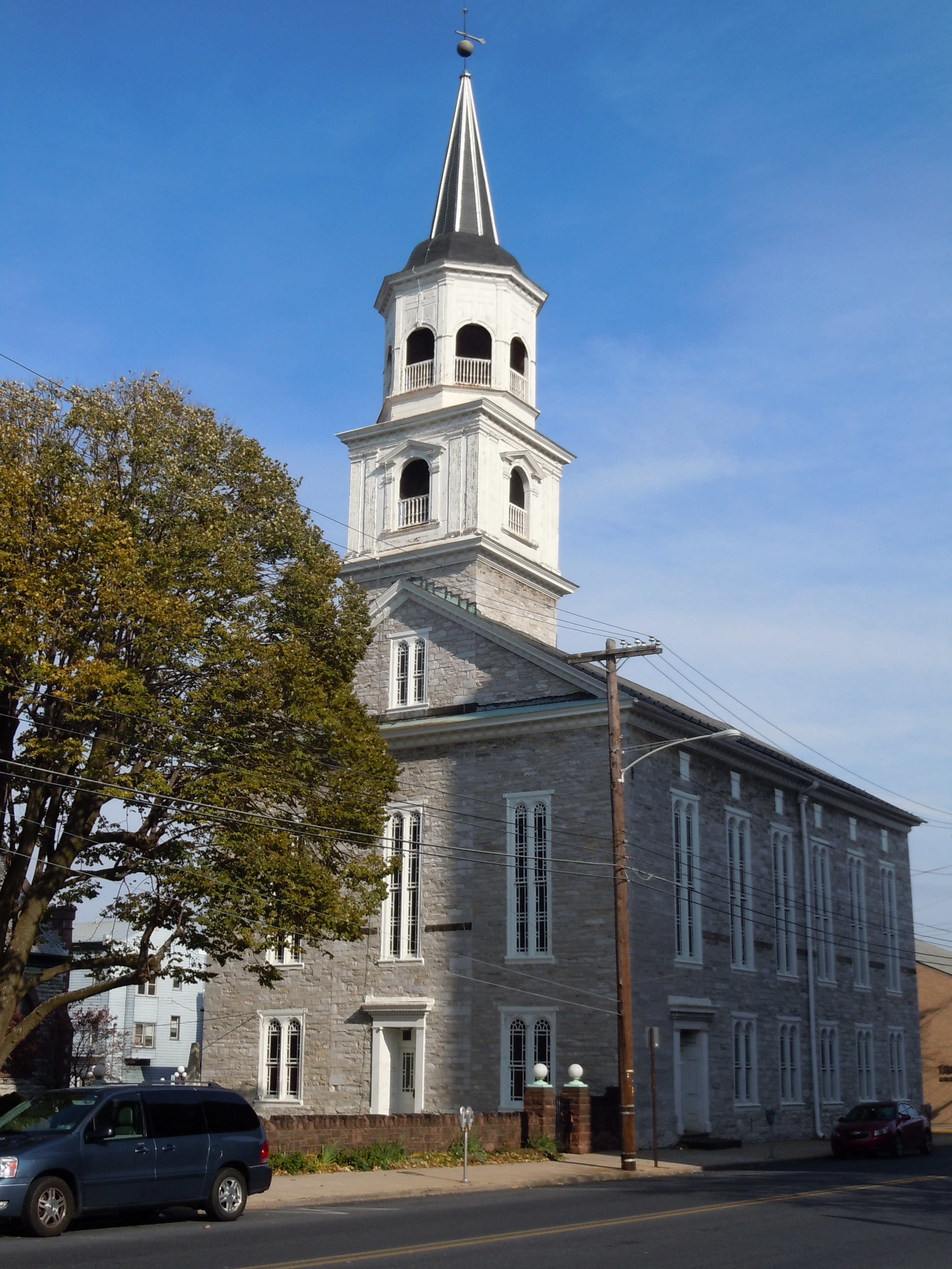 Salem Evangelical Lutheran Church on the NRJP since June 28, 2010 At 119 N Eighth St., Lebanon, Pennsylvania